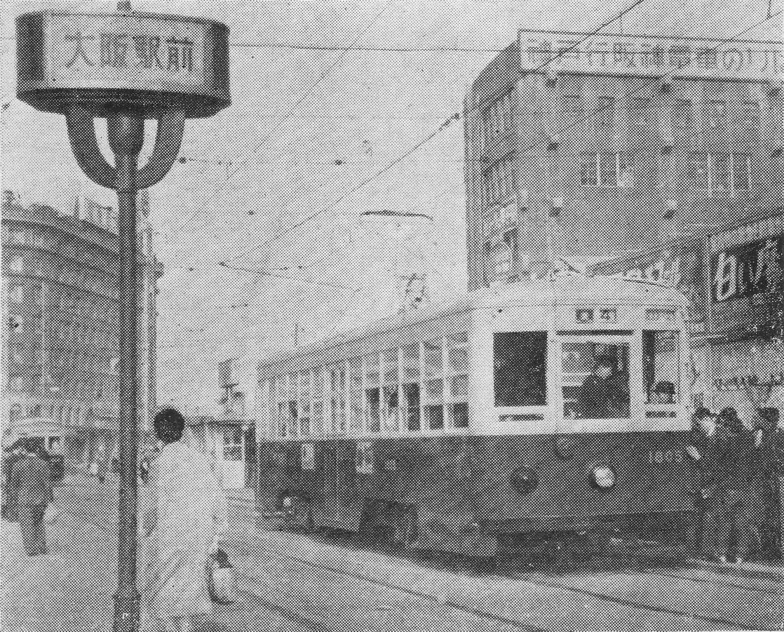 Osaka City Tram #1805